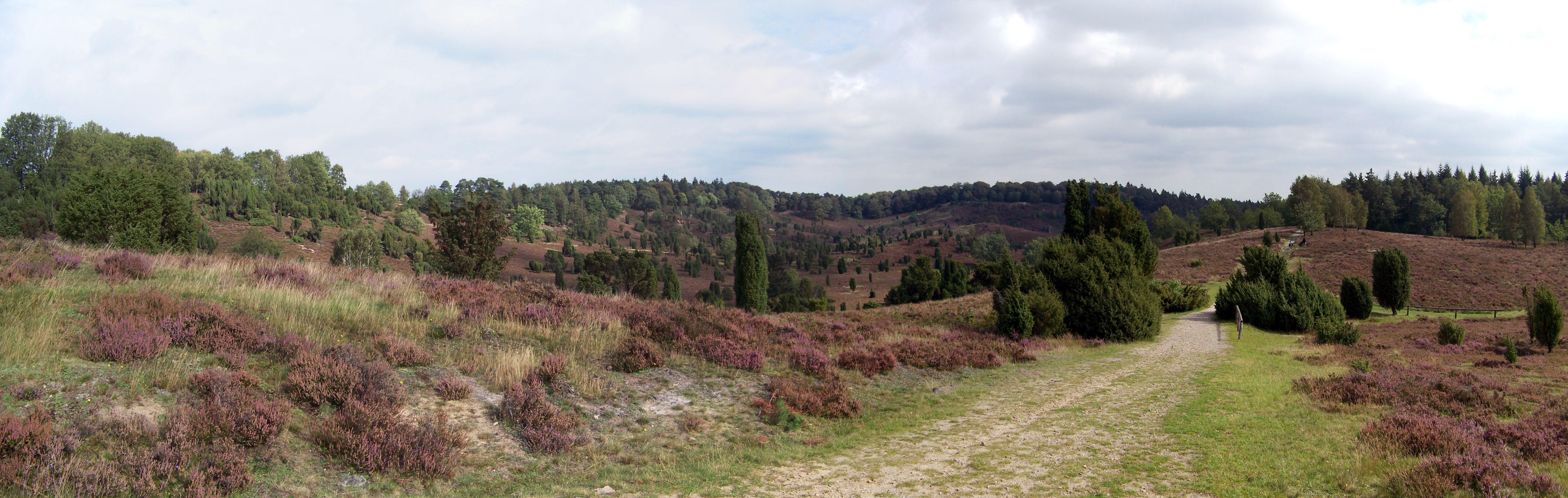 The Totengrund valley, near Wilsede village, at the Lunenburg Heath (Lüneburger Heide), taken in September 2011.